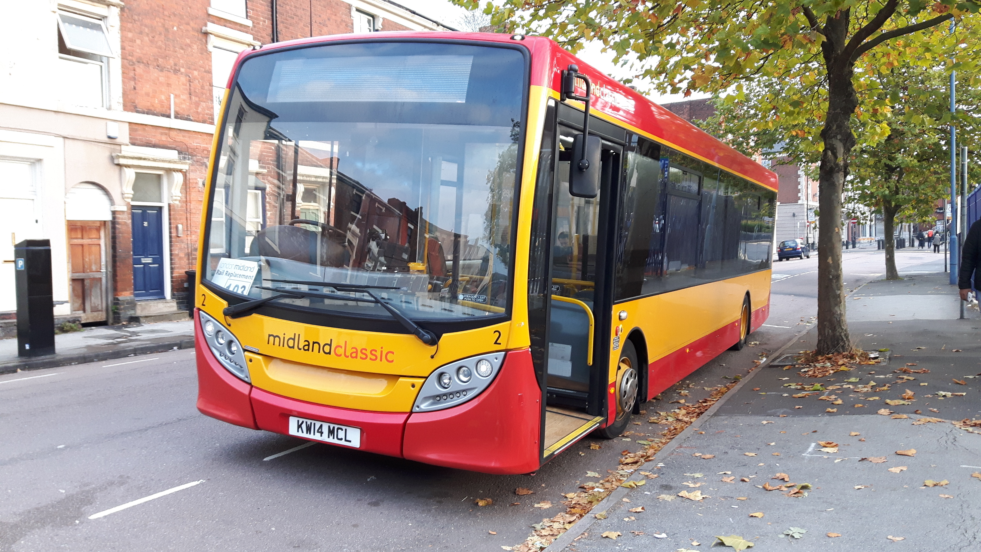 Here is one of the two Alexander Dennis Darts brought new by Midland Classic in 2014. KW14 MCL is sèen here at Walsall Railway Station during London Midland Rail Replacement duties on Saturday 17th October 2015.